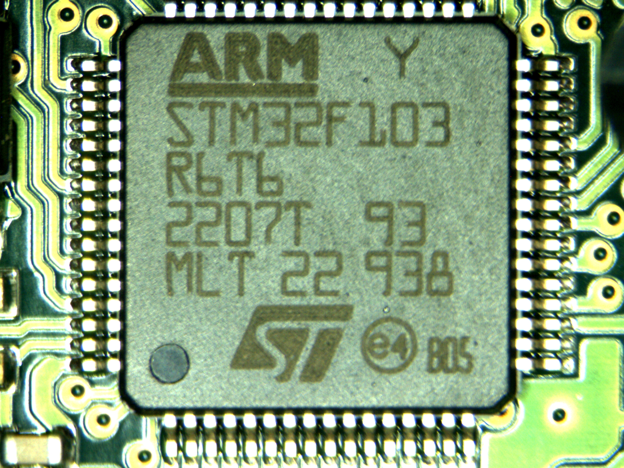 ST STM32F103R6T6 microcontroller - LQFP64 - ARM Cortex STMicroelectronics - Optical inspection microscope photography